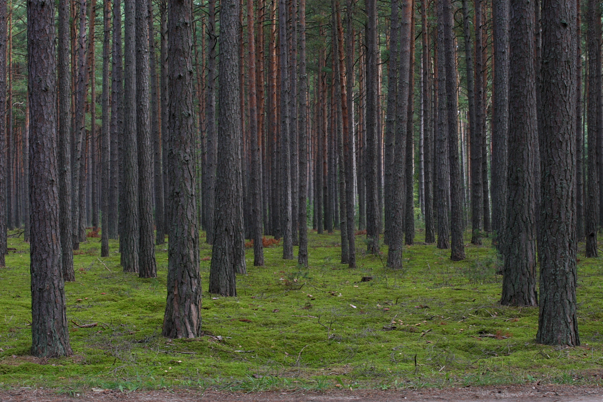 Kihnu, Pärnu County, Estonia